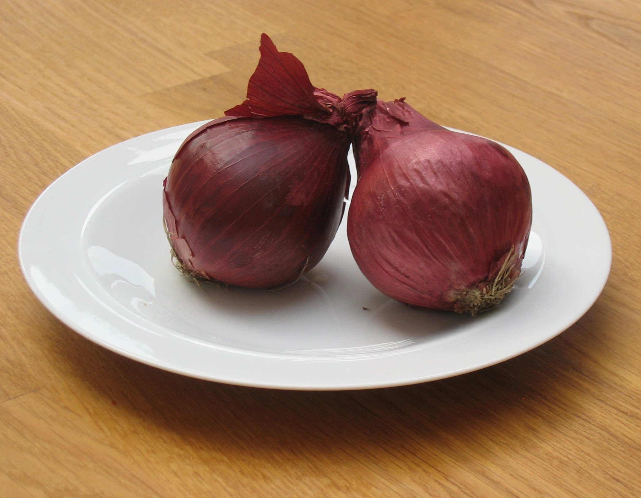 Red Onions